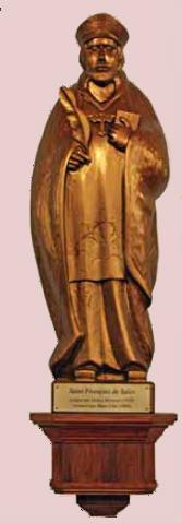 Sculpture of Saint François de Sales by Denys Morisset in Saint-François Church in île d'Orléans